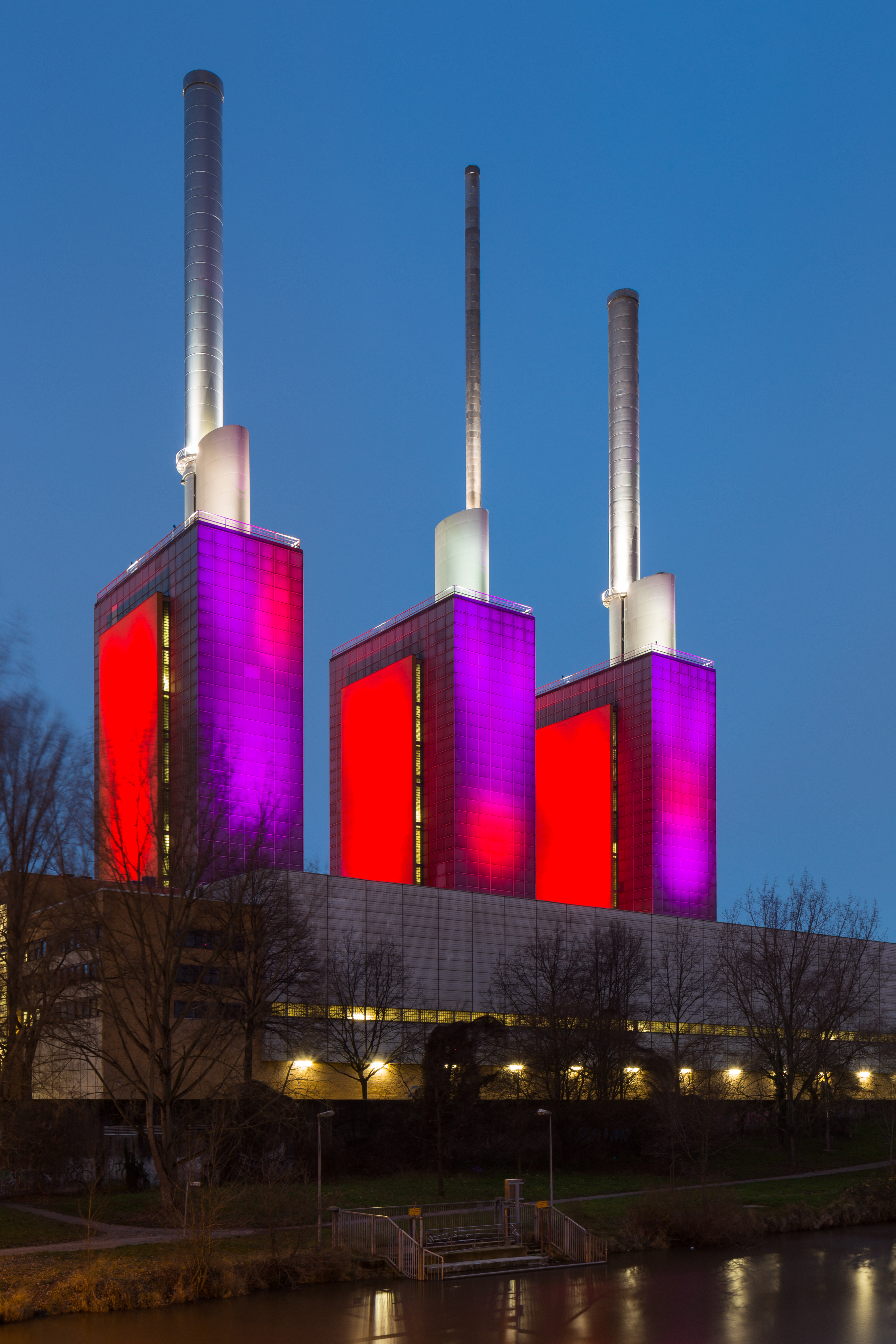 Gas-fired power plant Linden located between Elisenstrasse and Ihme river in Linden-Nord quarter of Hannover, Germany.